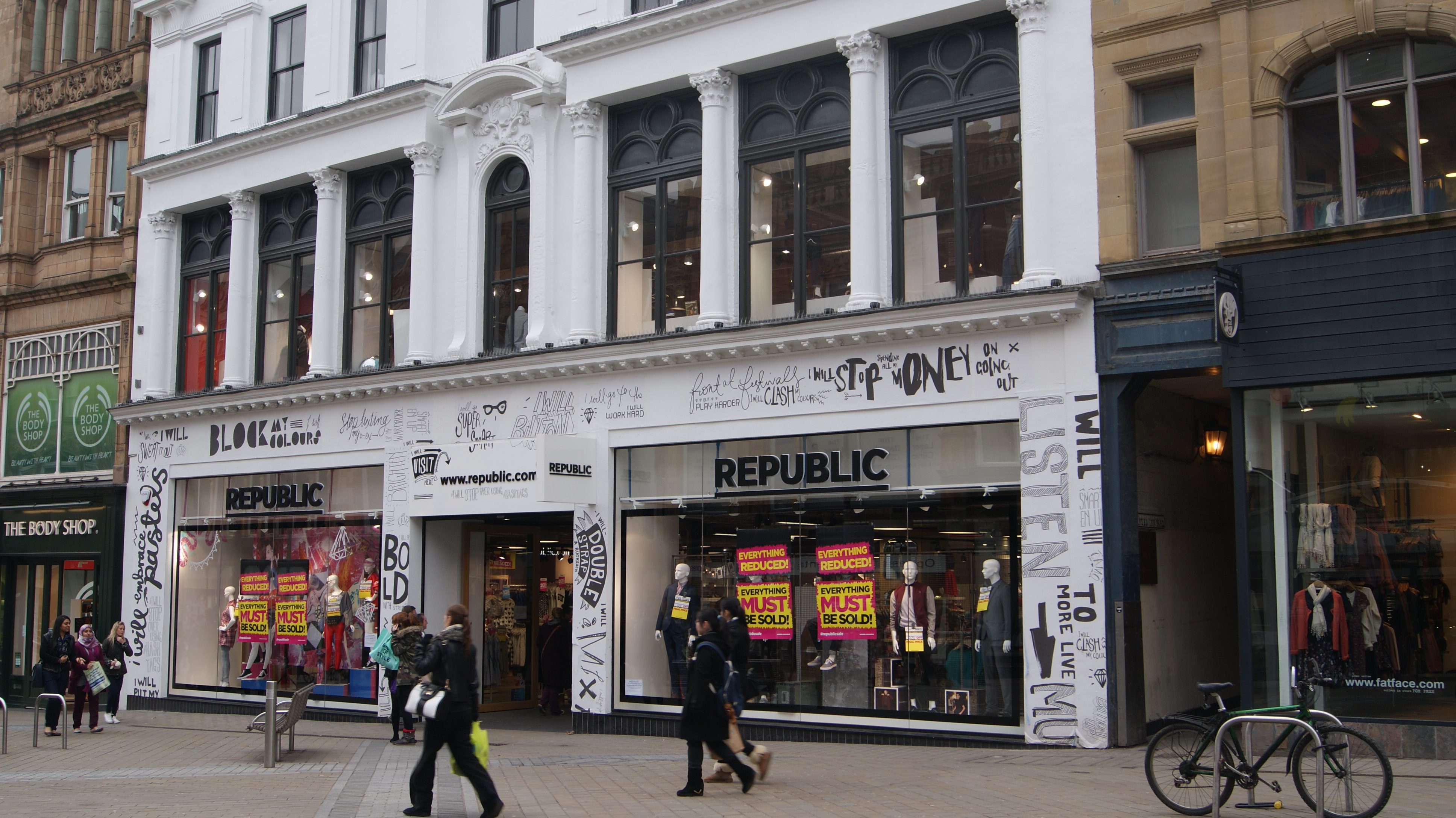 A branch of Republic on Briggate, Leeds, West Yorkshire. This shop looked reasonably smart until the addition of the 'graffiti'. The Republic chain are currently in administration. Taken on the afternoon of Wednesday the 20th of February 2013.